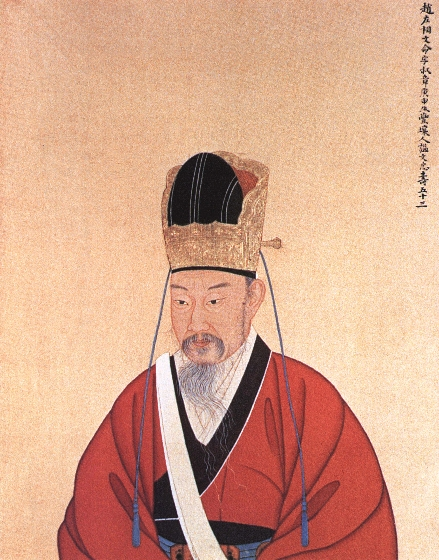 Portrait of Joe munmyeong